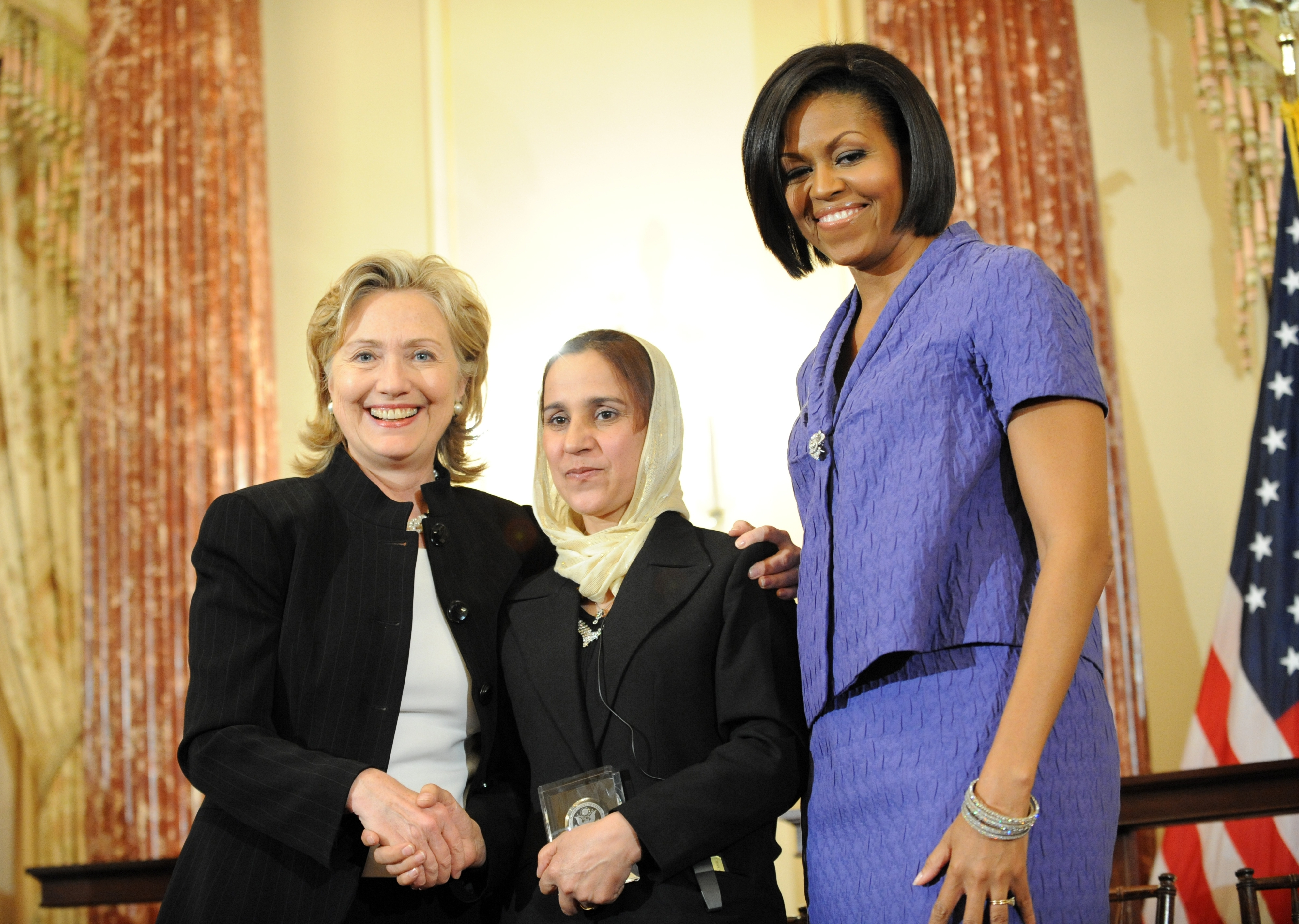 2010 International Women of Courage Awards - individual awardees with Secretary of State Hillary Clinton and First Lady Michelle Obama